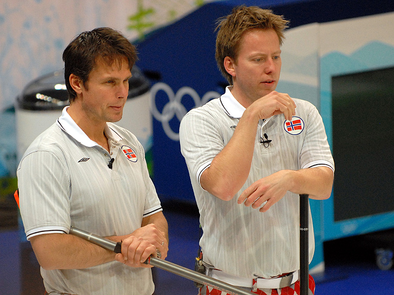 Thomas Ulsrud and Torger Nergård at the Vancouver 2010 Olympics.